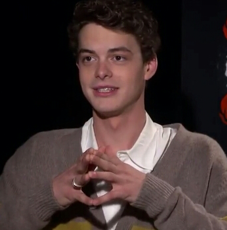 Depicted person: Israel Broussard – American actor